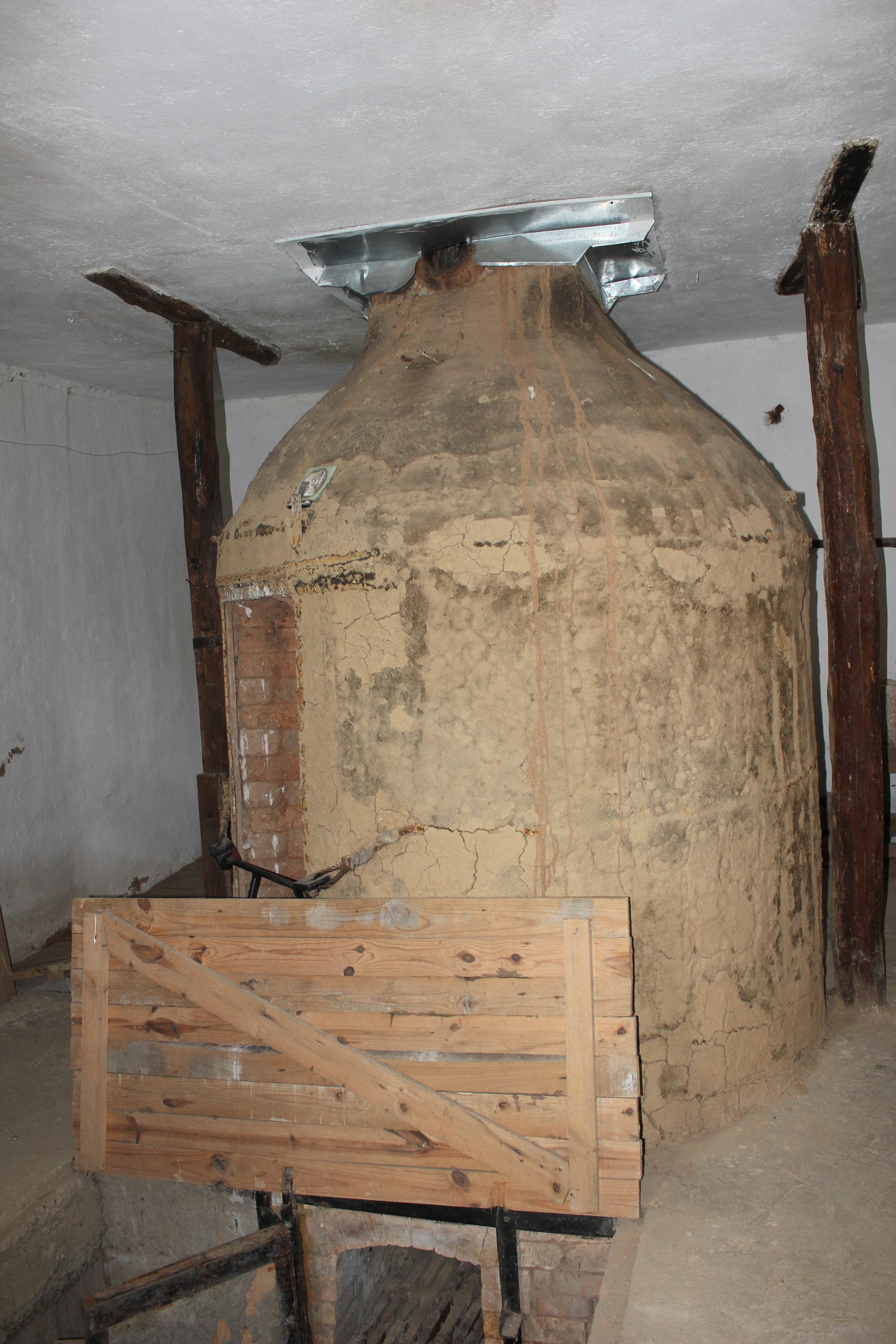 Busintsi ceramic oven